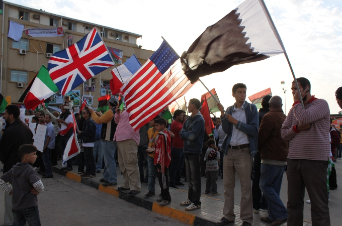 Benghazi residents hold Italian, British, French, American, Qatari and Libyan rebel flags outside the city's main courthouse during a demonstration. Foreign intervention against Gaddafi's forces has earned the Western nations and tiny-but-powerful Qatari significant goodwill from the community.